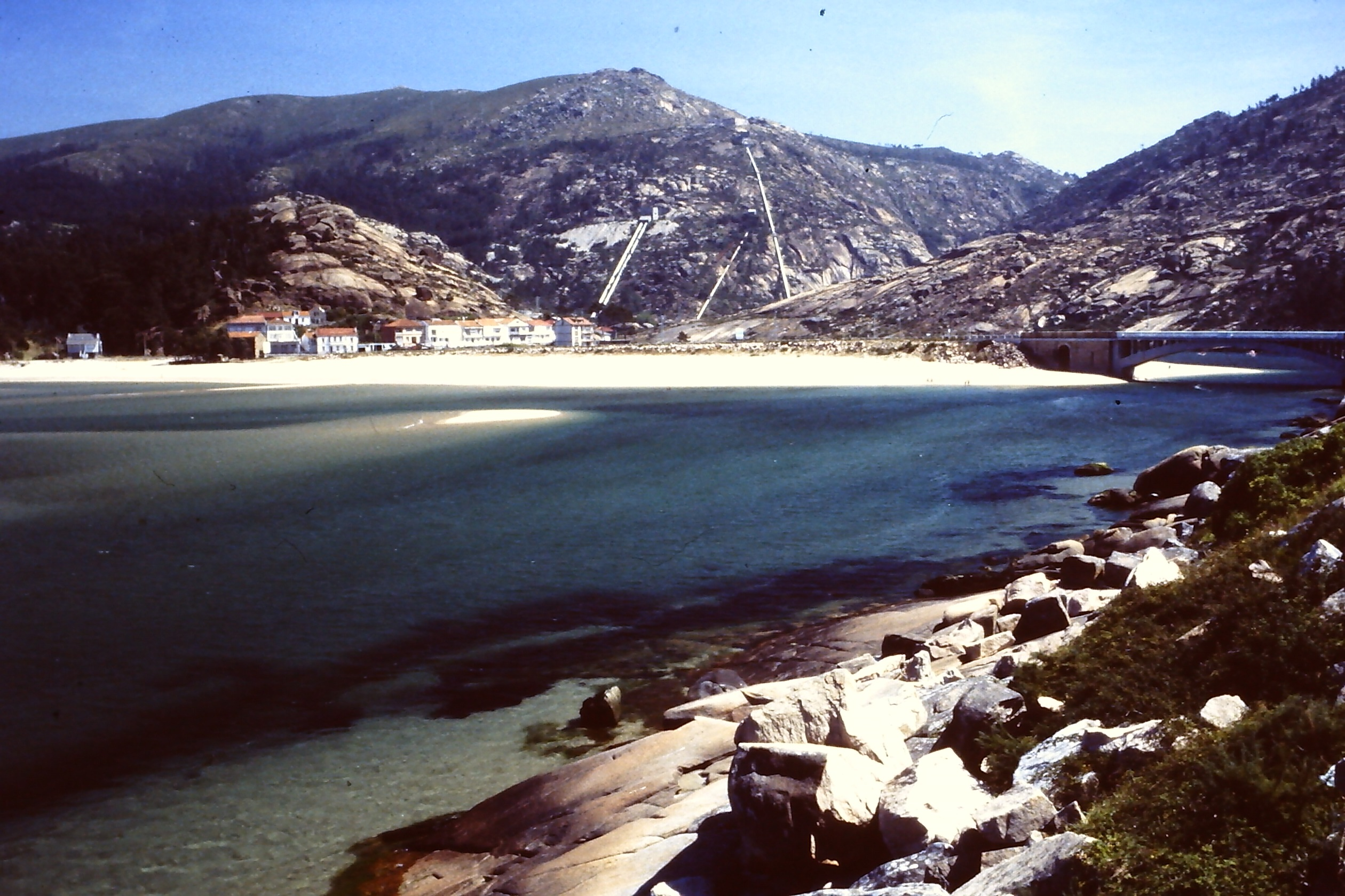 Rio Xallas desembocadura 1996